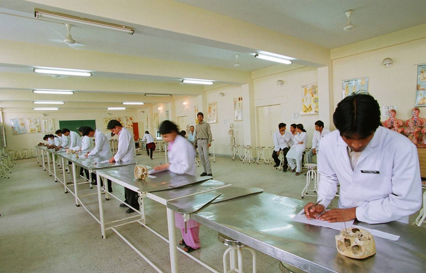 Anatomy Department of government medical college haldwani is well known along with its anesthesiology department.